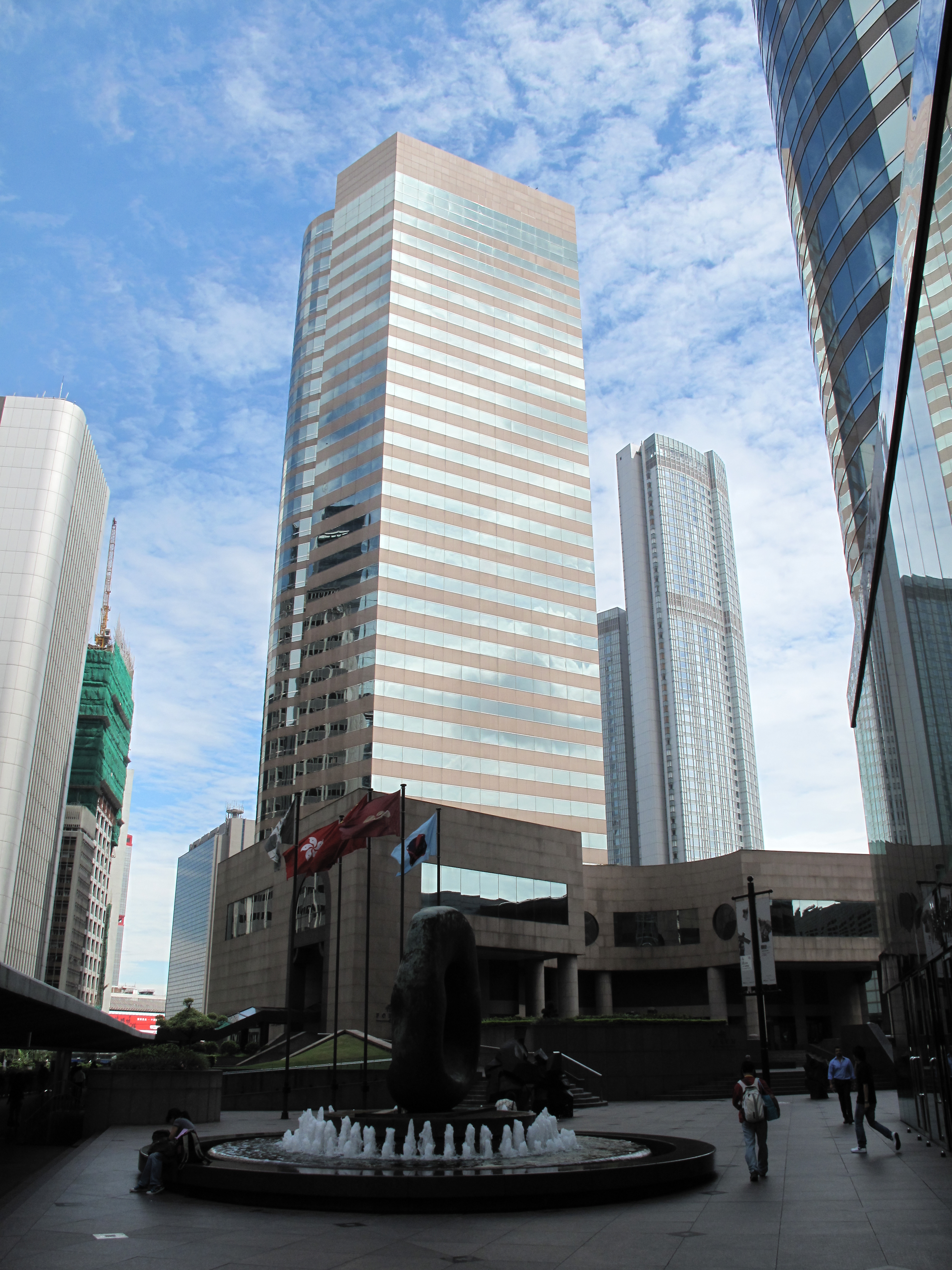 Photo of Three Exchange Square